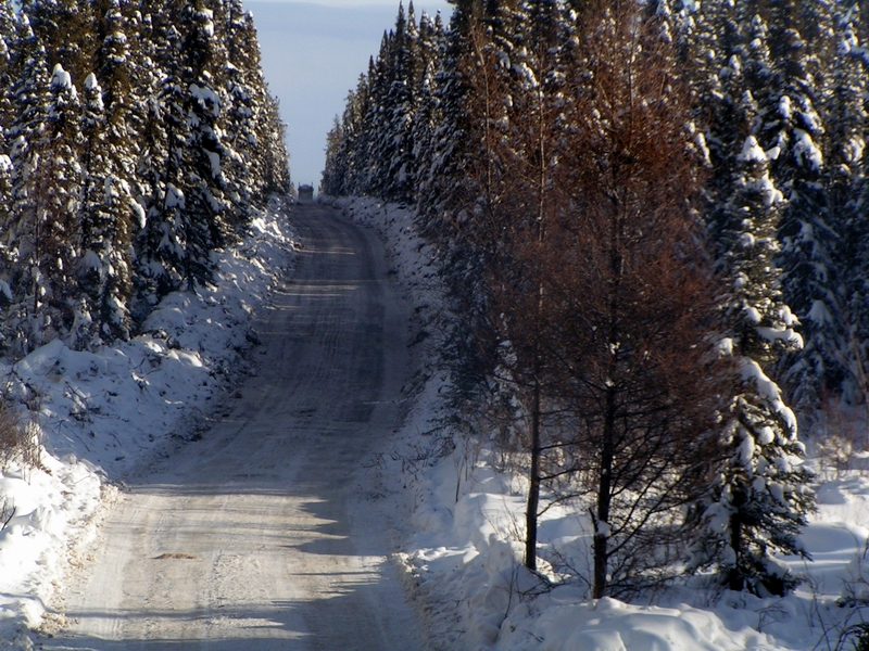 Iceroad in British Columbia, Canada